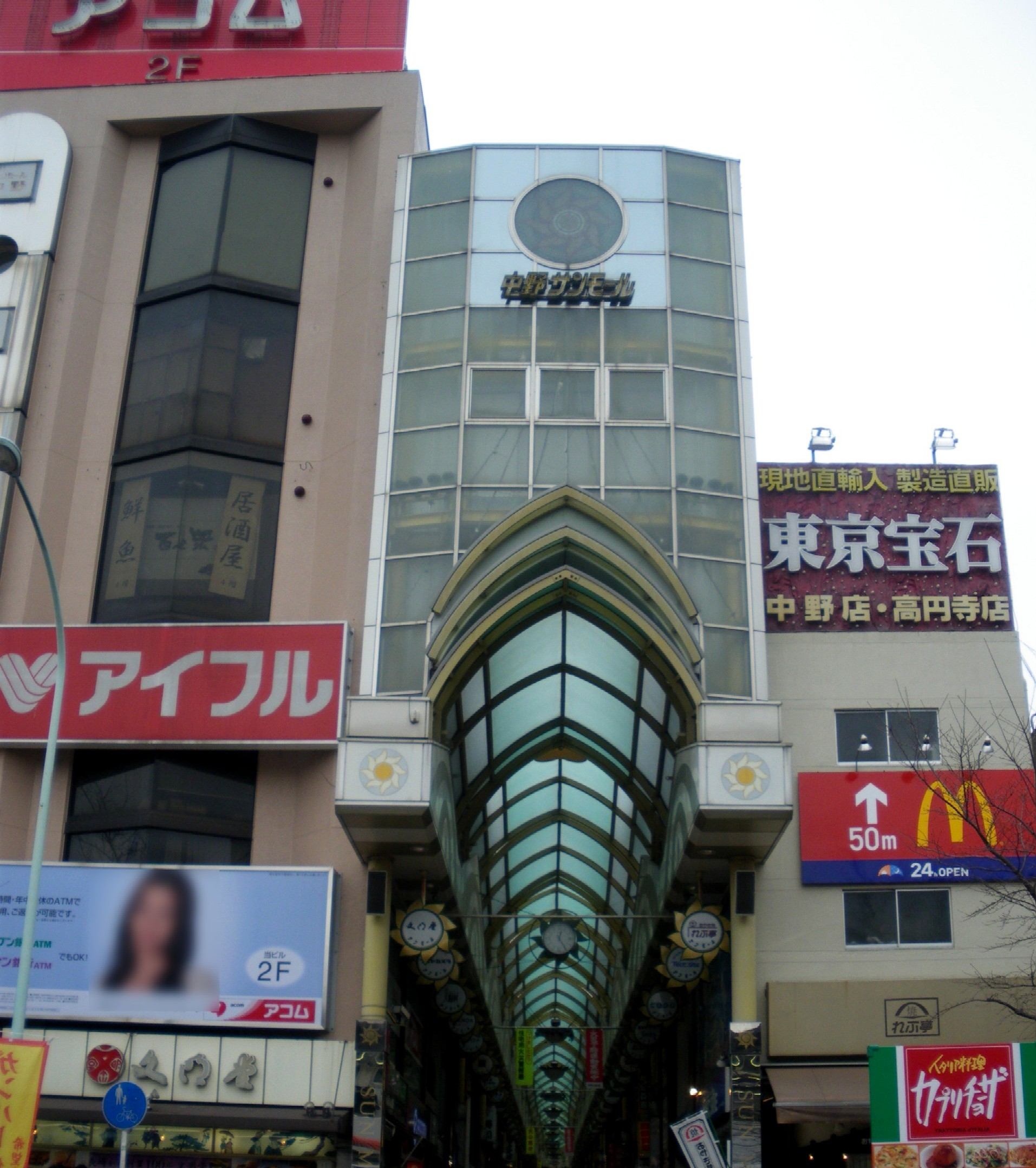 A photo of the entrance of Nakano Sunmall shopping Street,Nakano,Nakano-ku,Tokyo,Japan.